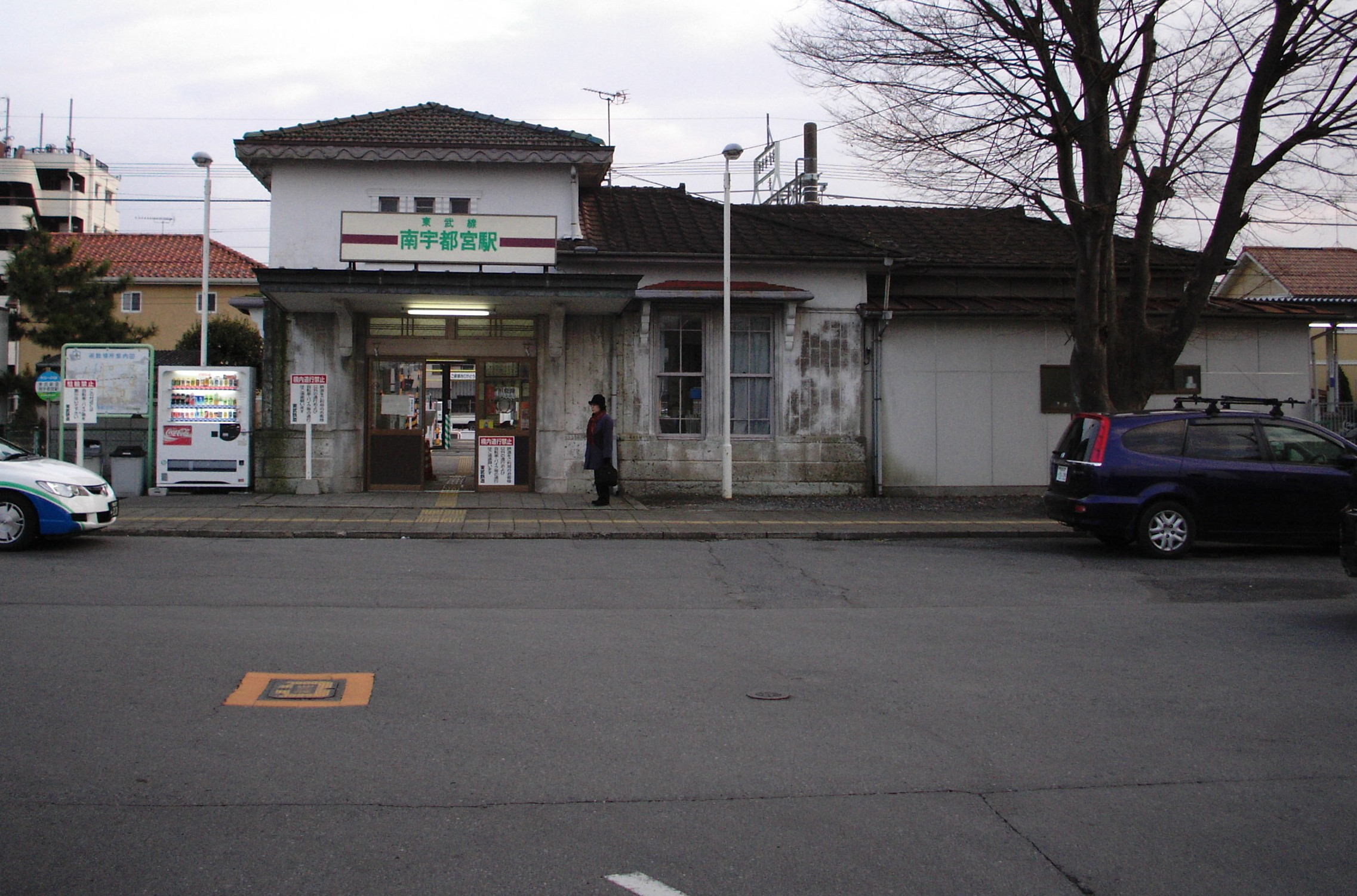 Minami-Utsunomiya Station of the Tōbu Utsunomiya Line, Utsunomiya, Tochigi, Japan